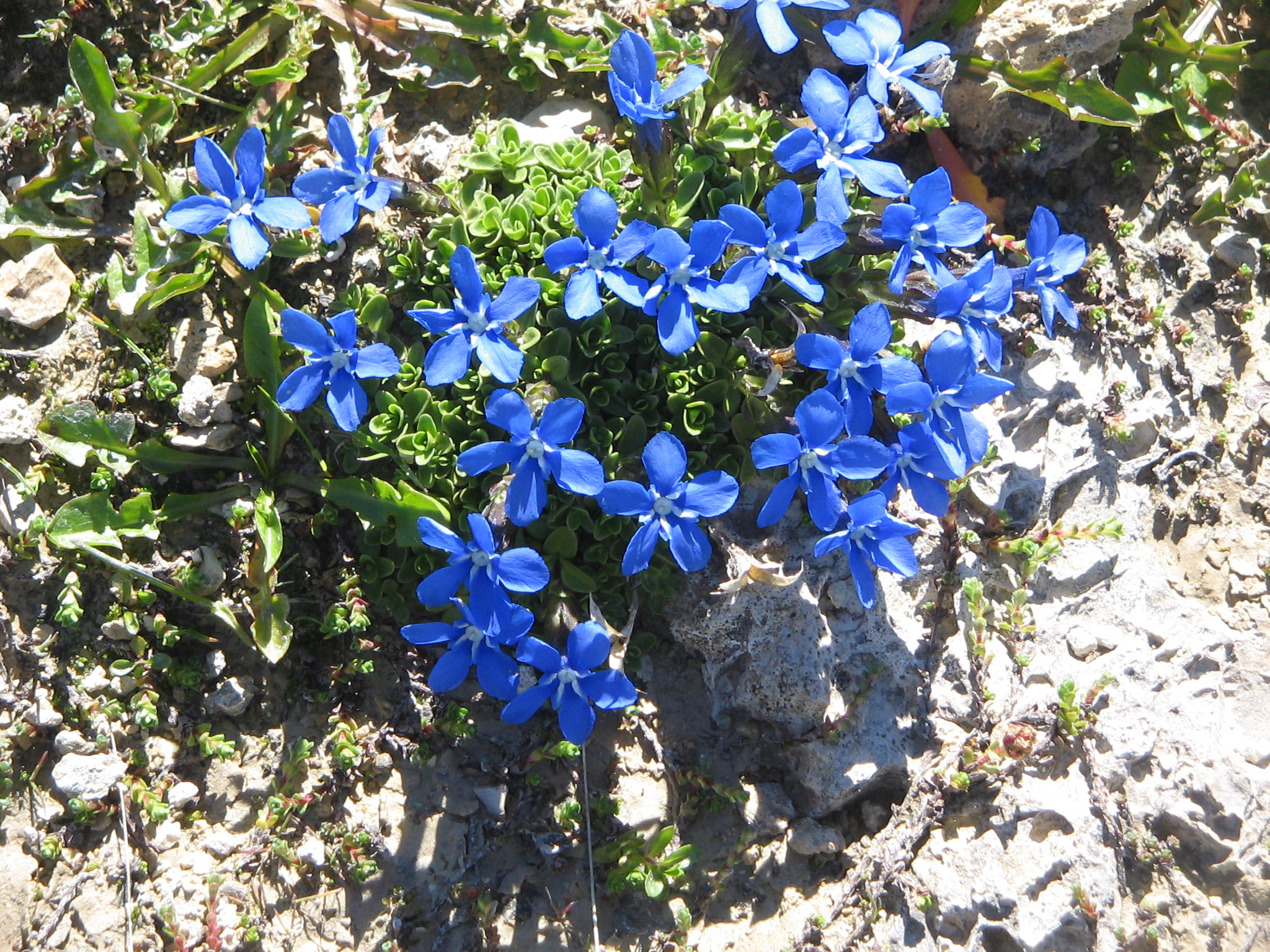 Gentiana bavarica subsp. subacaulis